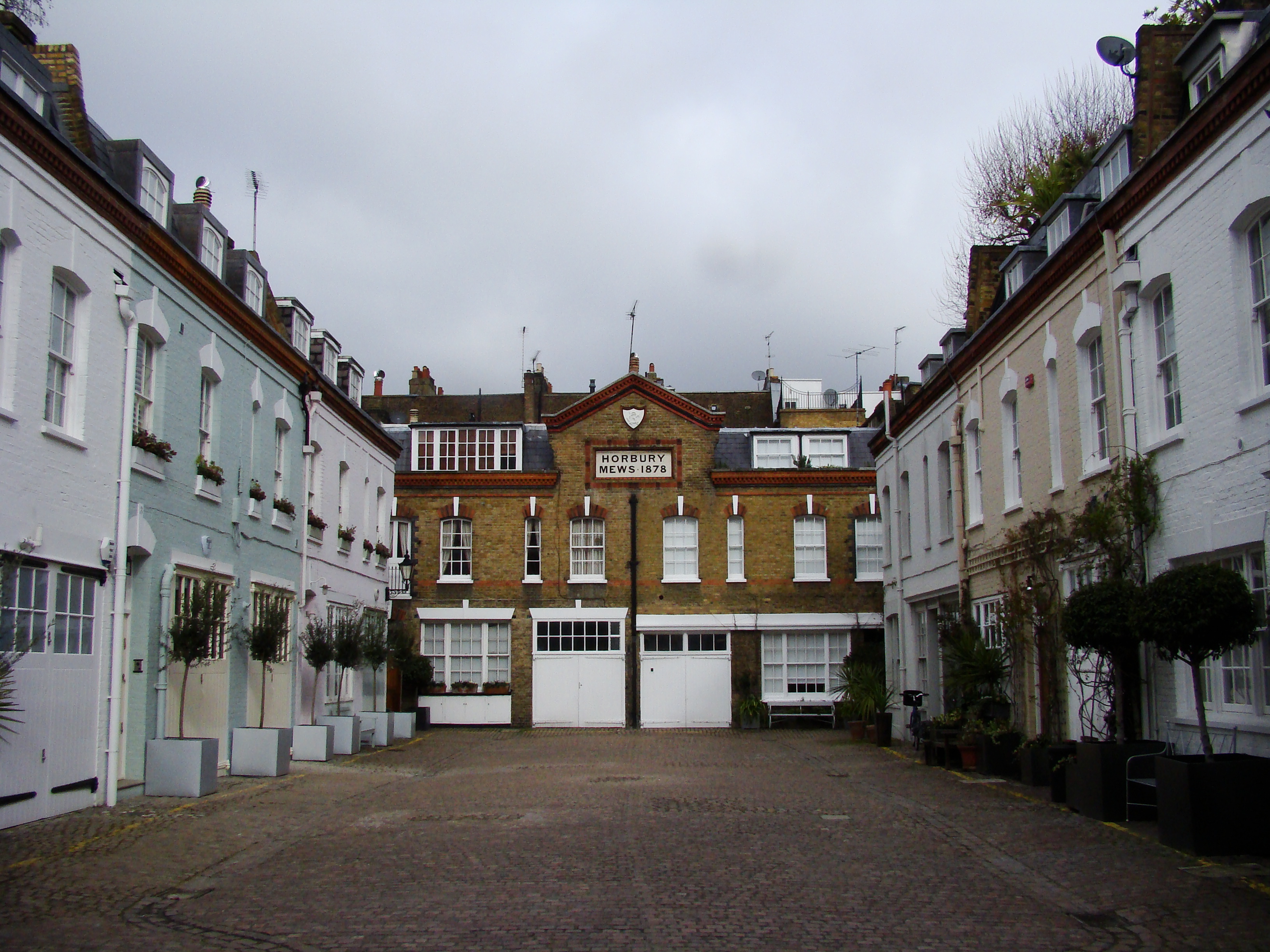 A photo of Horbury Mews located near Ladbroke Rd, London, UK.